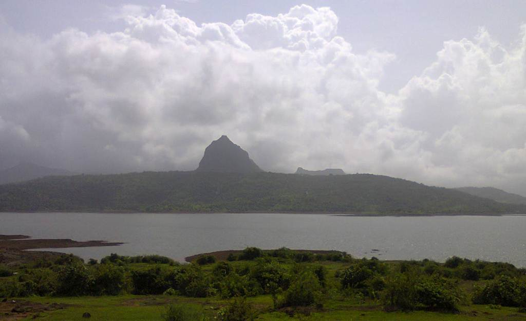 Tung Fort in monsoon in sahyadri mountain range